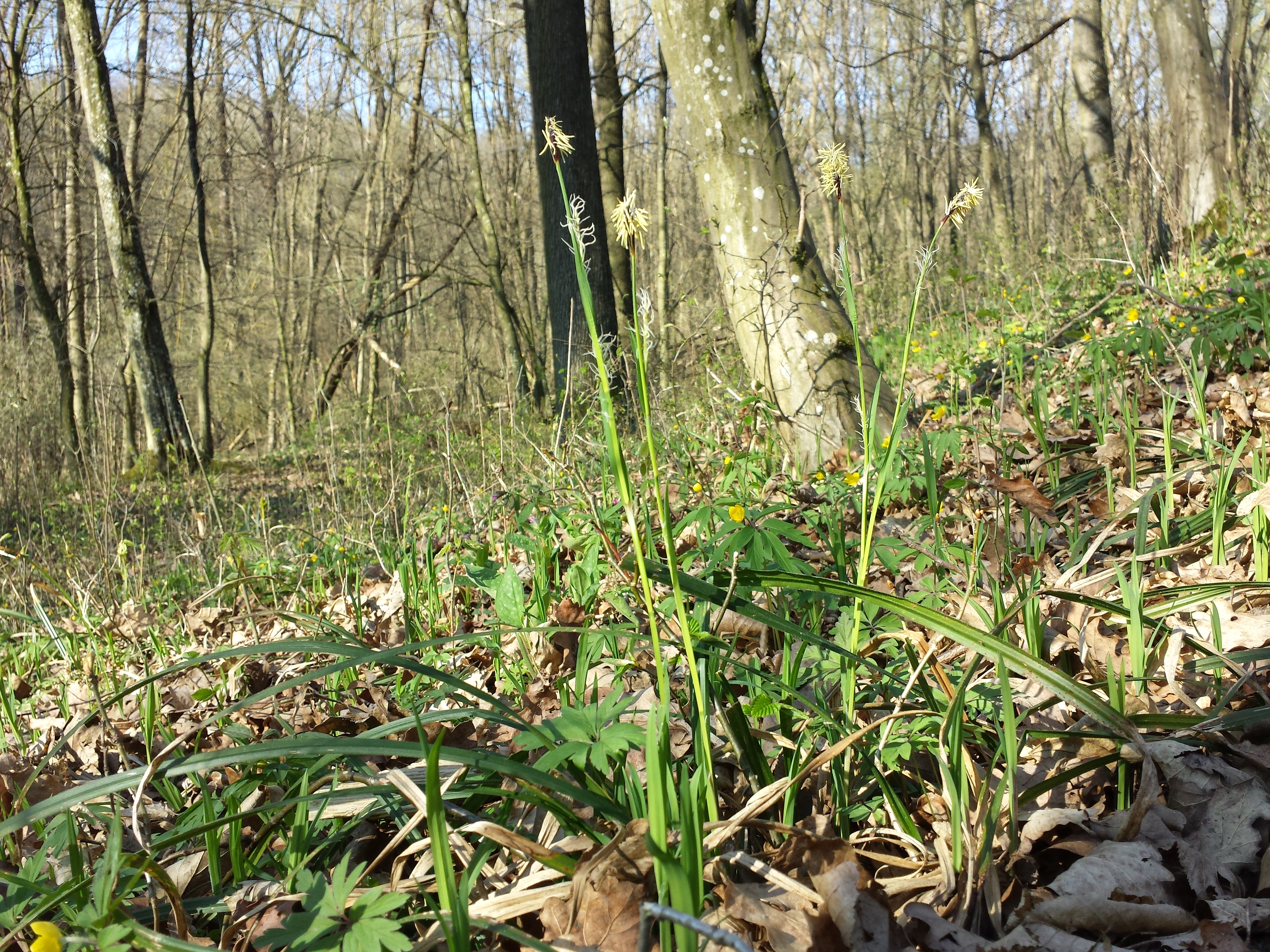 Habitus Taxonym: Carex pilosa ss Fischer et al. EfÖLS 2008 ISBN 978-3-85474-187-9 Location: Kreuttal, district Mistelbach, Lower Austria - ca. 240 m a.s.l. Habitat: dedicious forest